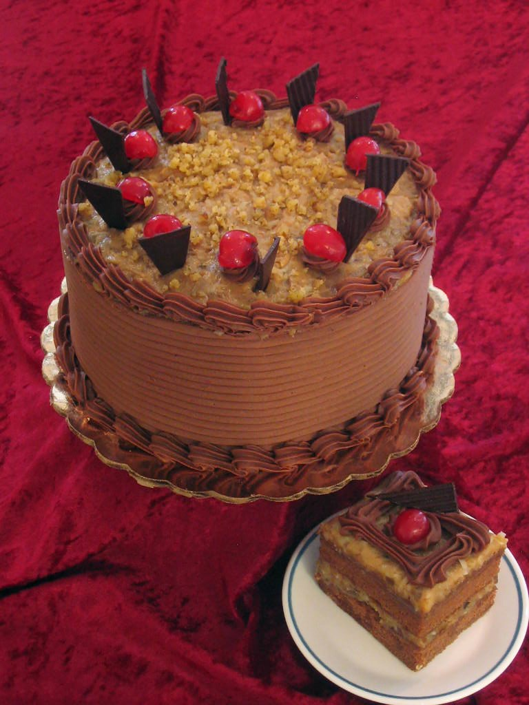 German Chocolate Cake This seems to be mens favorite cake. But I like it too! German chocolate cake from a bakery